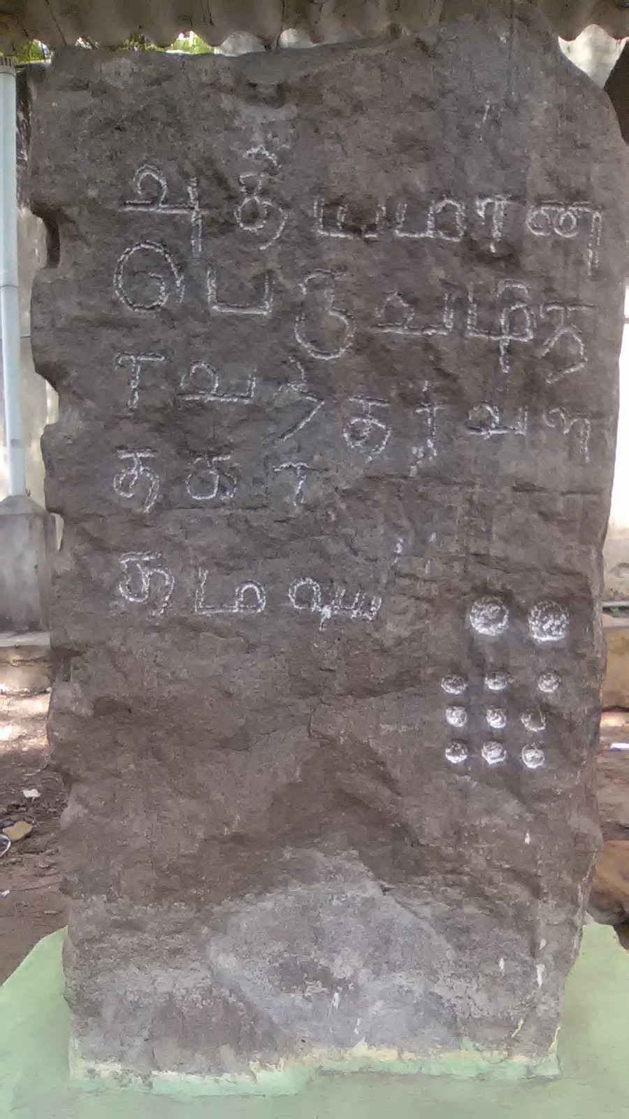 தருமபுரி அகழ்வைப்பகத்தில் உள்ள அதியமான் பெருவழிக்கல்